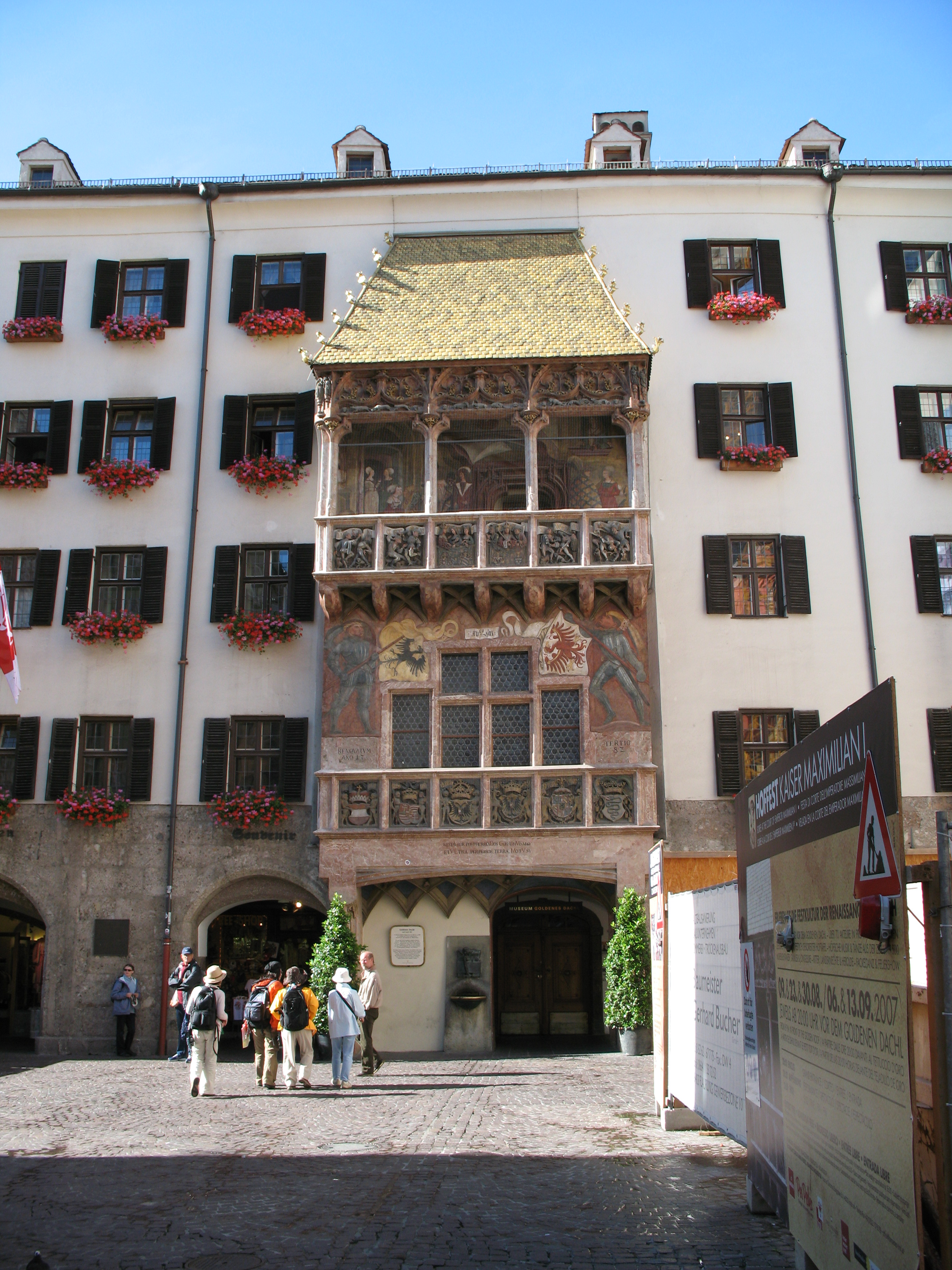 Golden Roof, Innsbruck, Austria